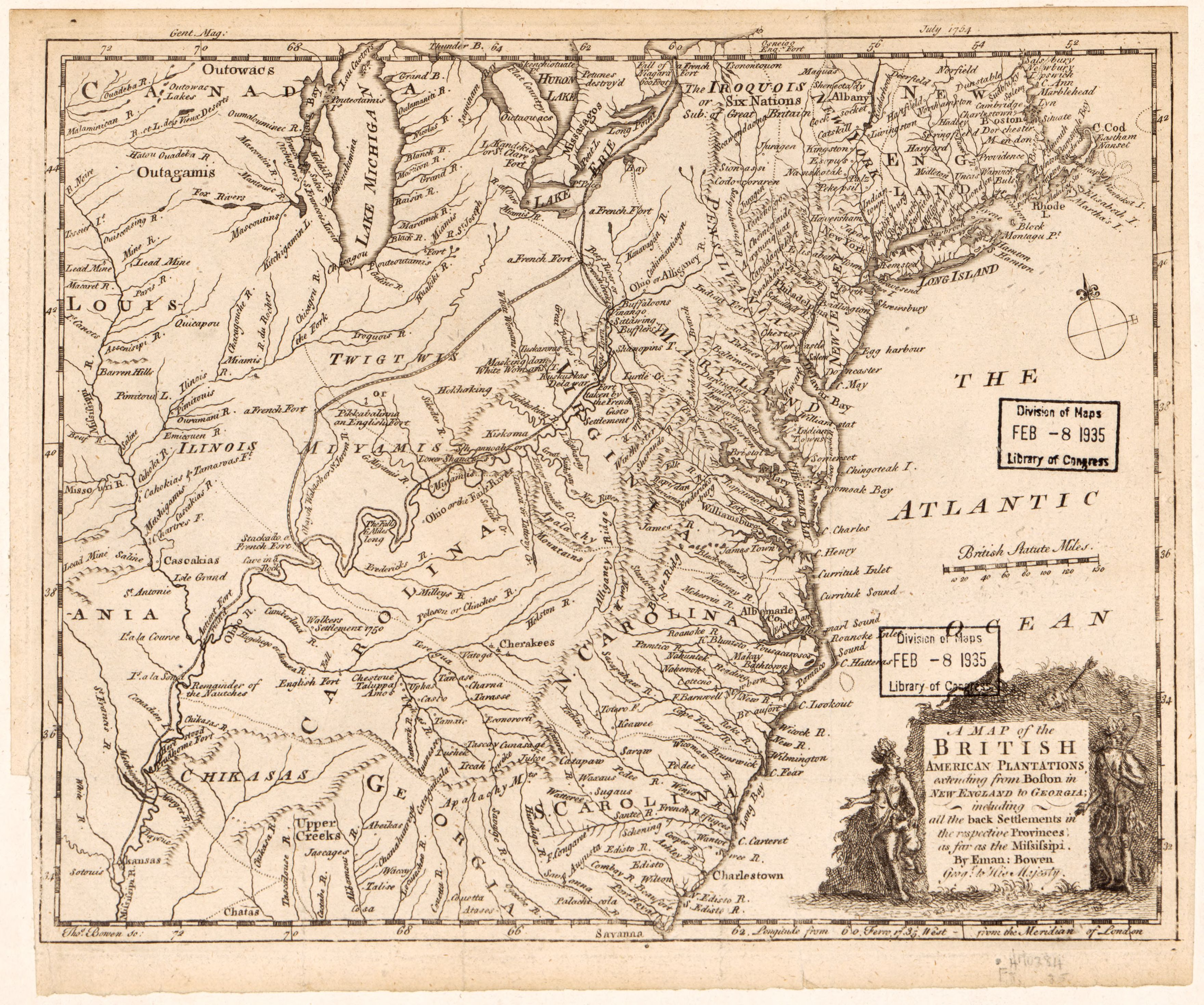 Relief shown pictorially. Shows area east of the Mississippi from Niagara Falls to Port Royal, S.C. Includes illustrated cartouche. Prime meridian: Ferro. From the Gentlemen's Magazine, vol. 24, July 1754. LC copy mounted on paper mounted on cloth. LC Maps of North America, 1750-1789, 708 Available also through the Library of Congress Web site as a raster image.